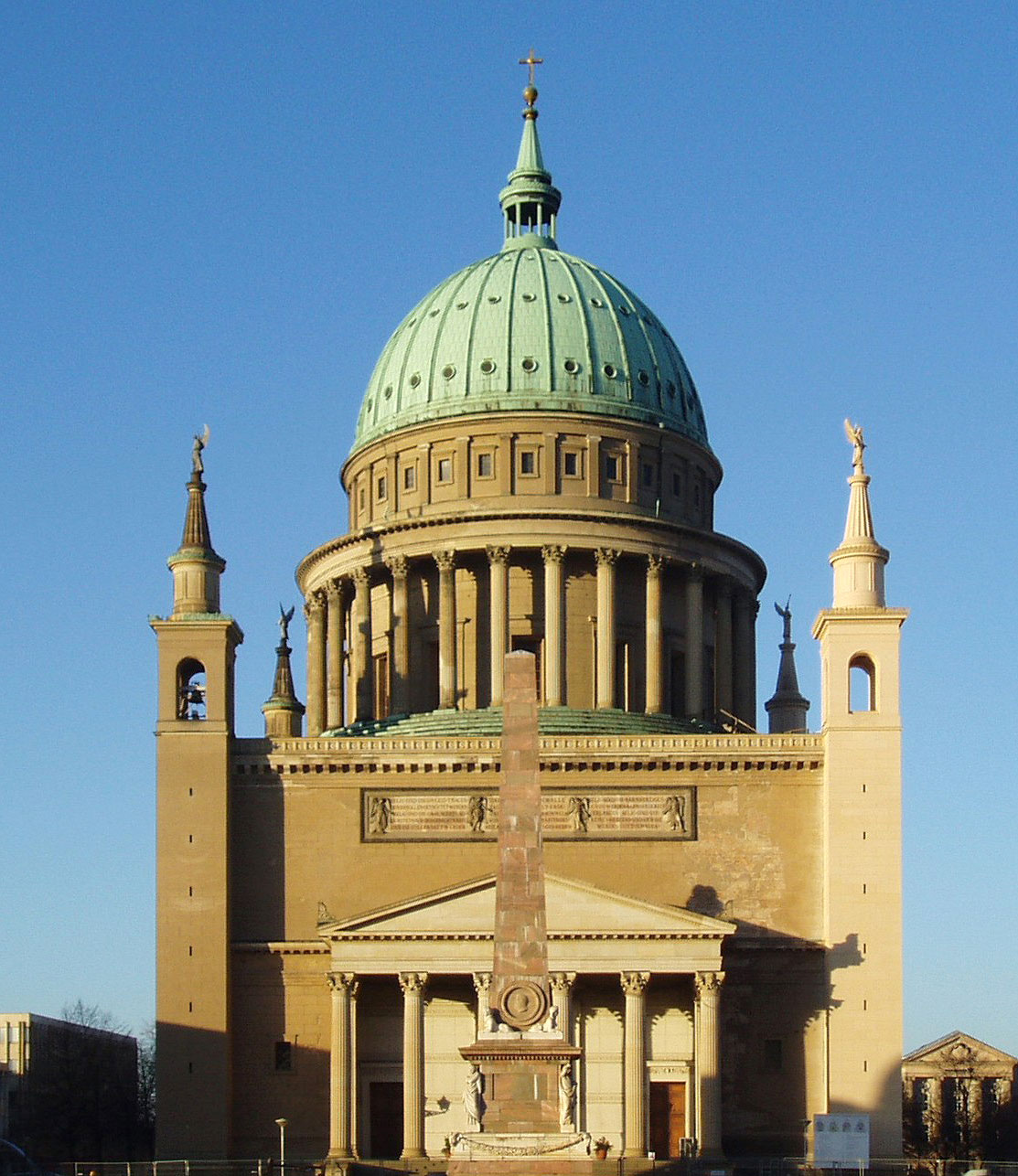 Potsdam (Germany) - St. Nikolaikirche - 2004